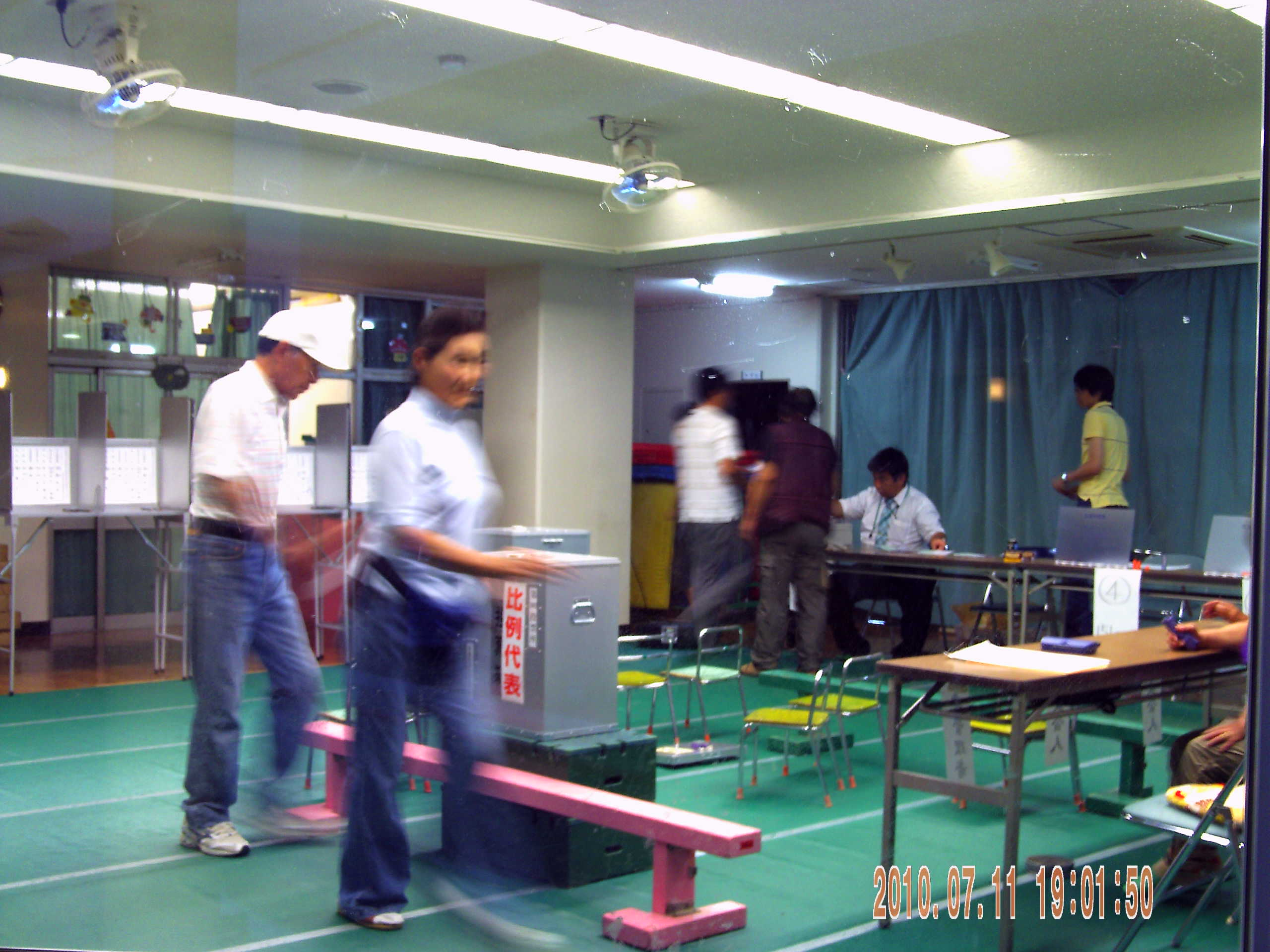 2010Election_at_Higashi-Osaka